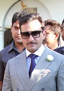 Indian actor Saif Ali Khan at the Kingfisher Ultra Indian Derby in 2016